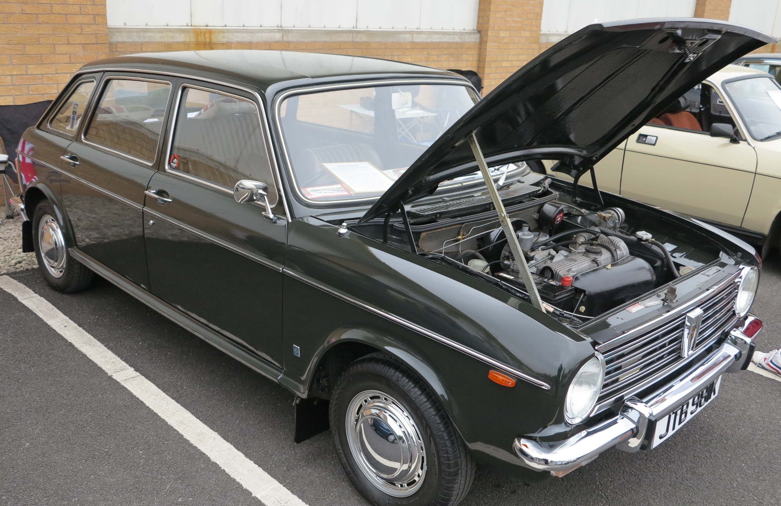 Austin Maxi